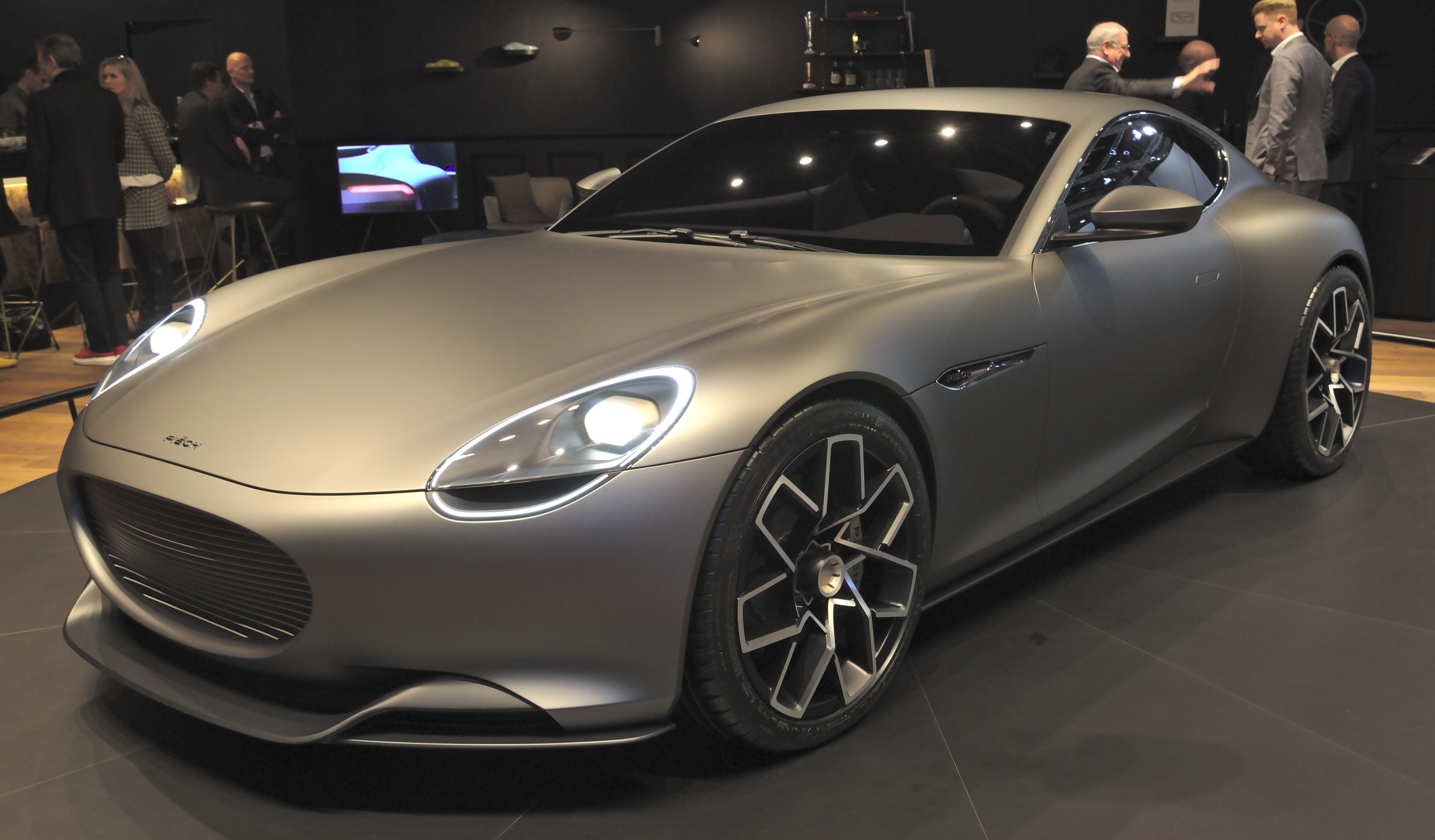 Piëch Mark Zero at Geneva Motor Show 2019